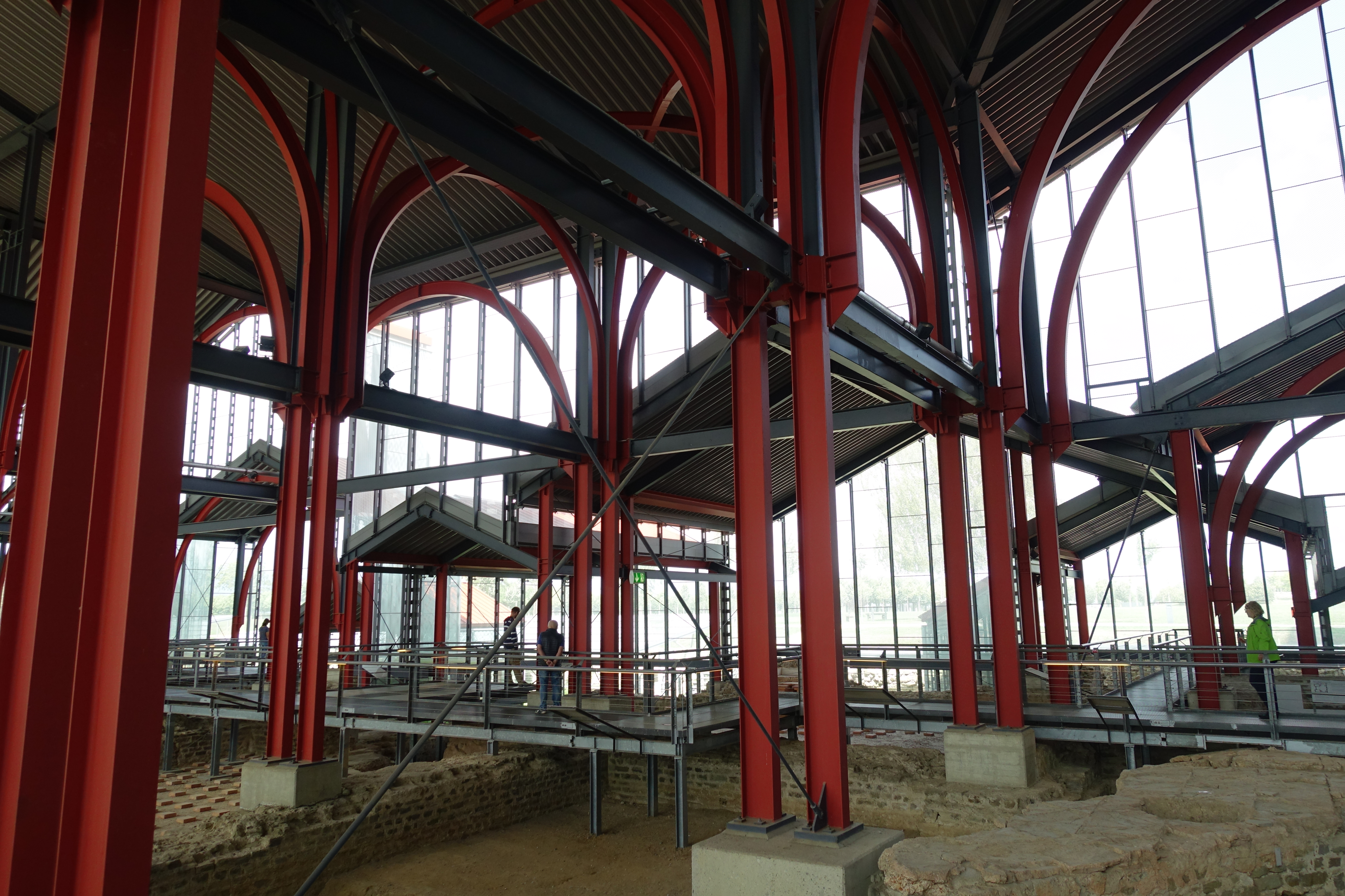 Archaeological Park Xanten (Germany). GLAM on Tour, Wikimedia Deutschland.